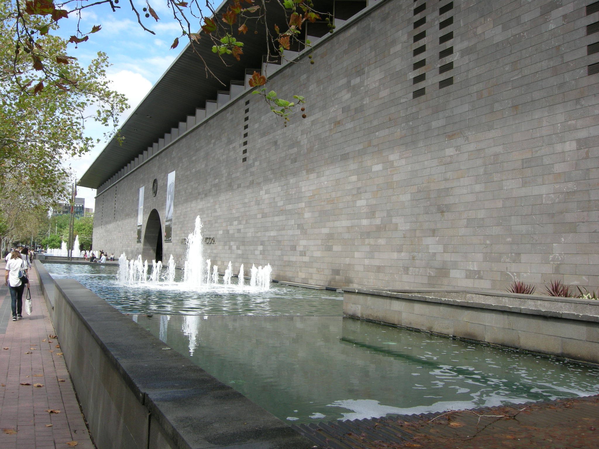 National Gallery of Victoria ext